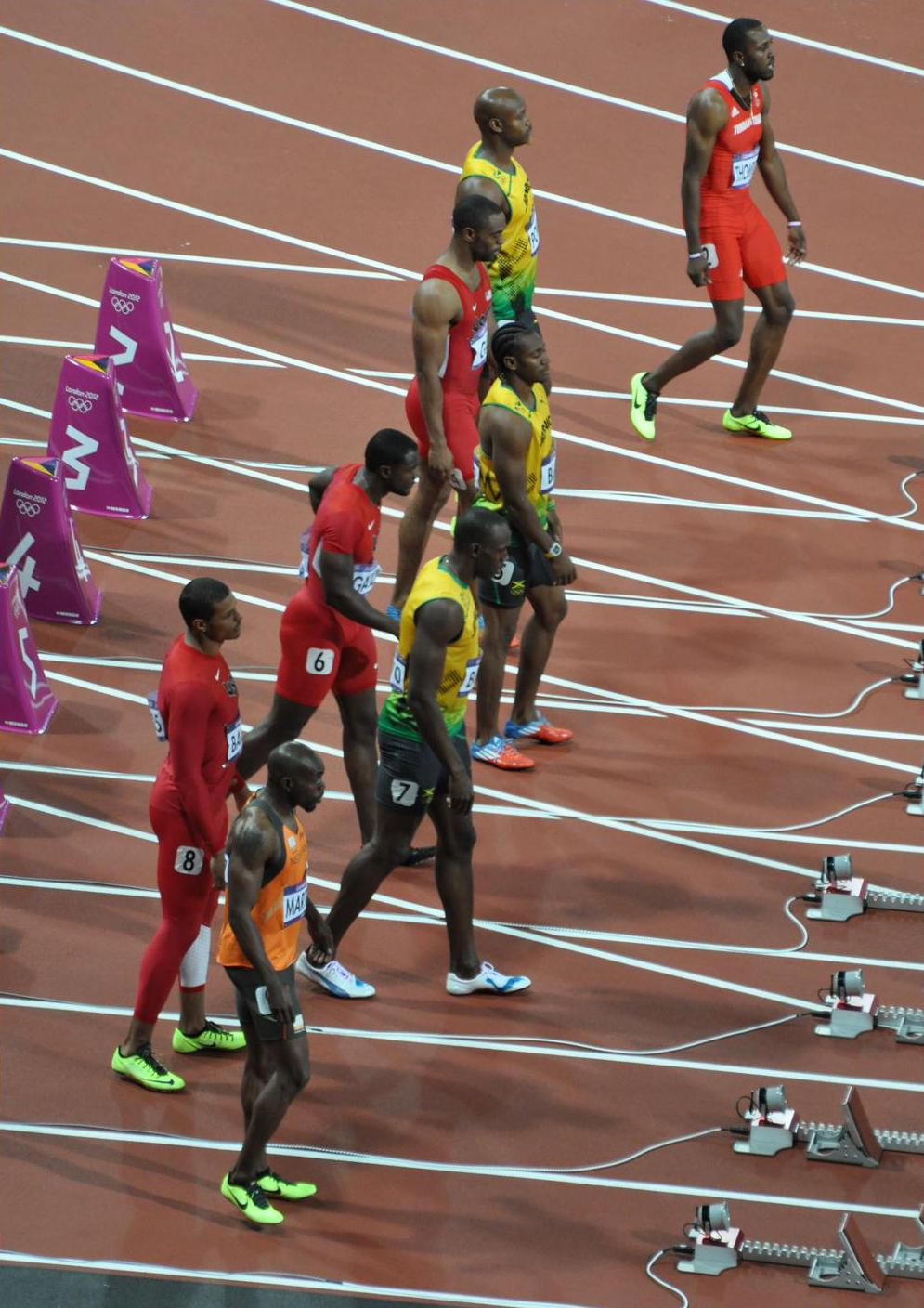 Prowling before the start